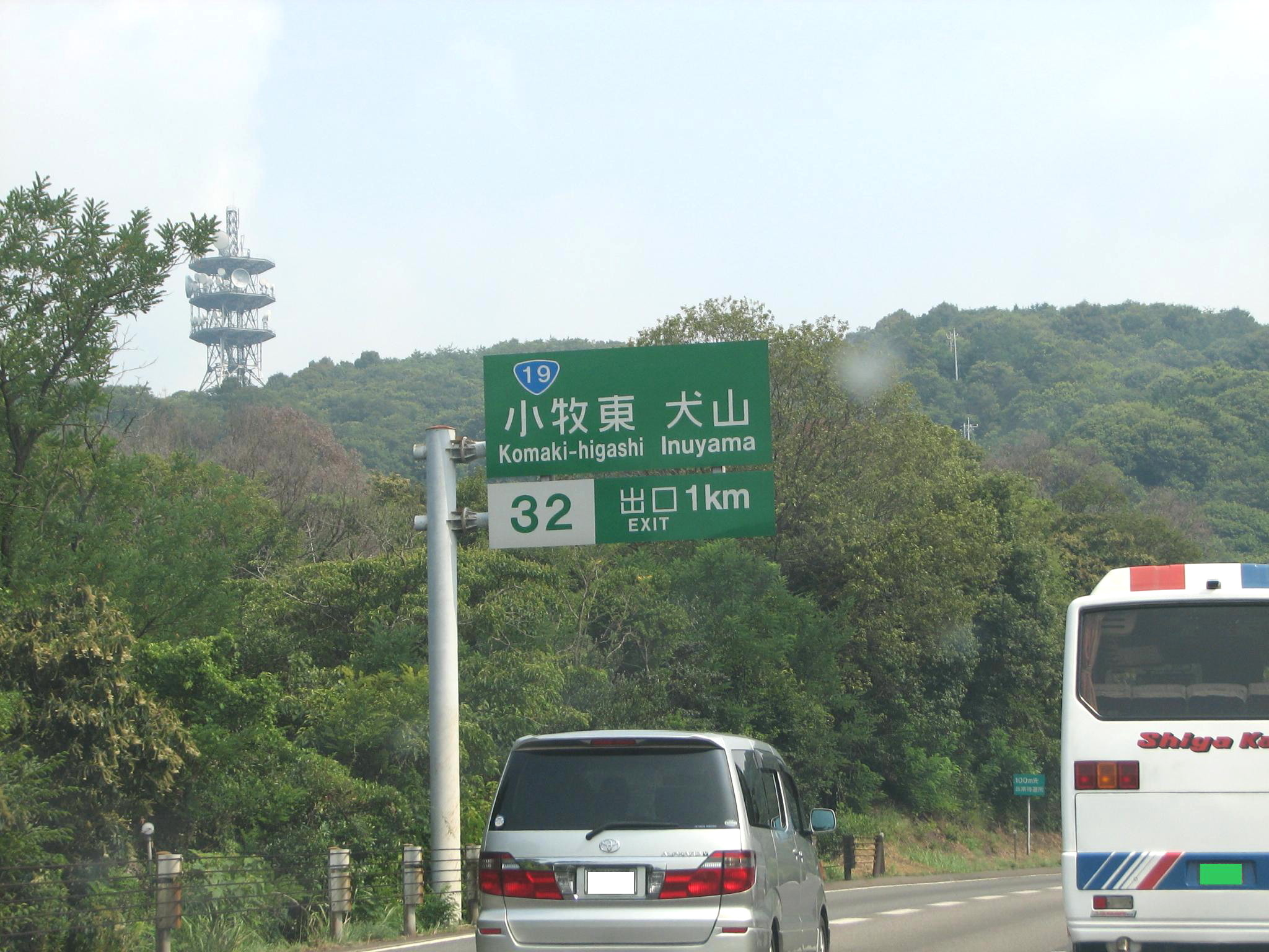 Komaki-higashi IC